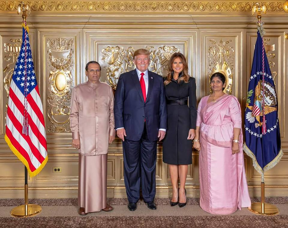 U.S. President Donald Trump and First Lady Melania Trump (center) hosted Sri Lankan President Maithripala Sirisena (left) and First Lady Jayanthi Sirisena (right) at a reception for the world leaders participating in the 73rd United Nations General Assembly in New York City.